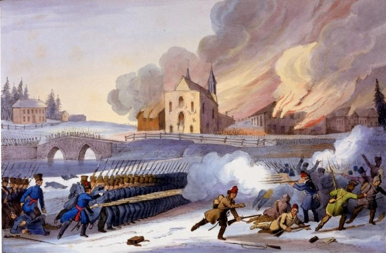 Print, Back view of the church of St. Eustache and dispersion of the insurgents, Lord Charles Beauclerk (1813-1842), 1840. Ink and watercolour on paper - Lithography - 26.5 x 36.6 cm